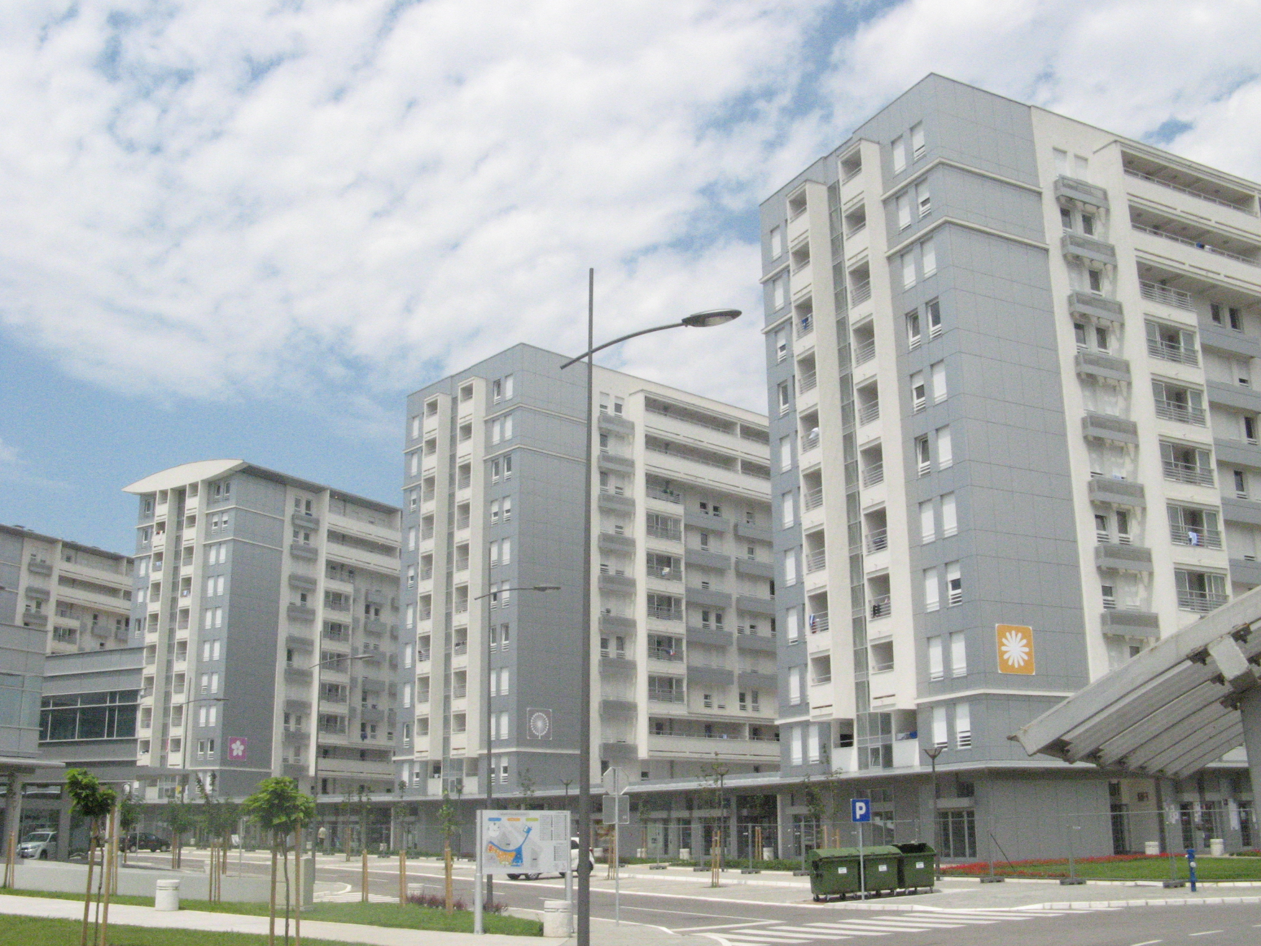 Belville: 2009 Summer Universiade, Belgrade; Dormitory/apartment buildings for sportsmen and sportswomen